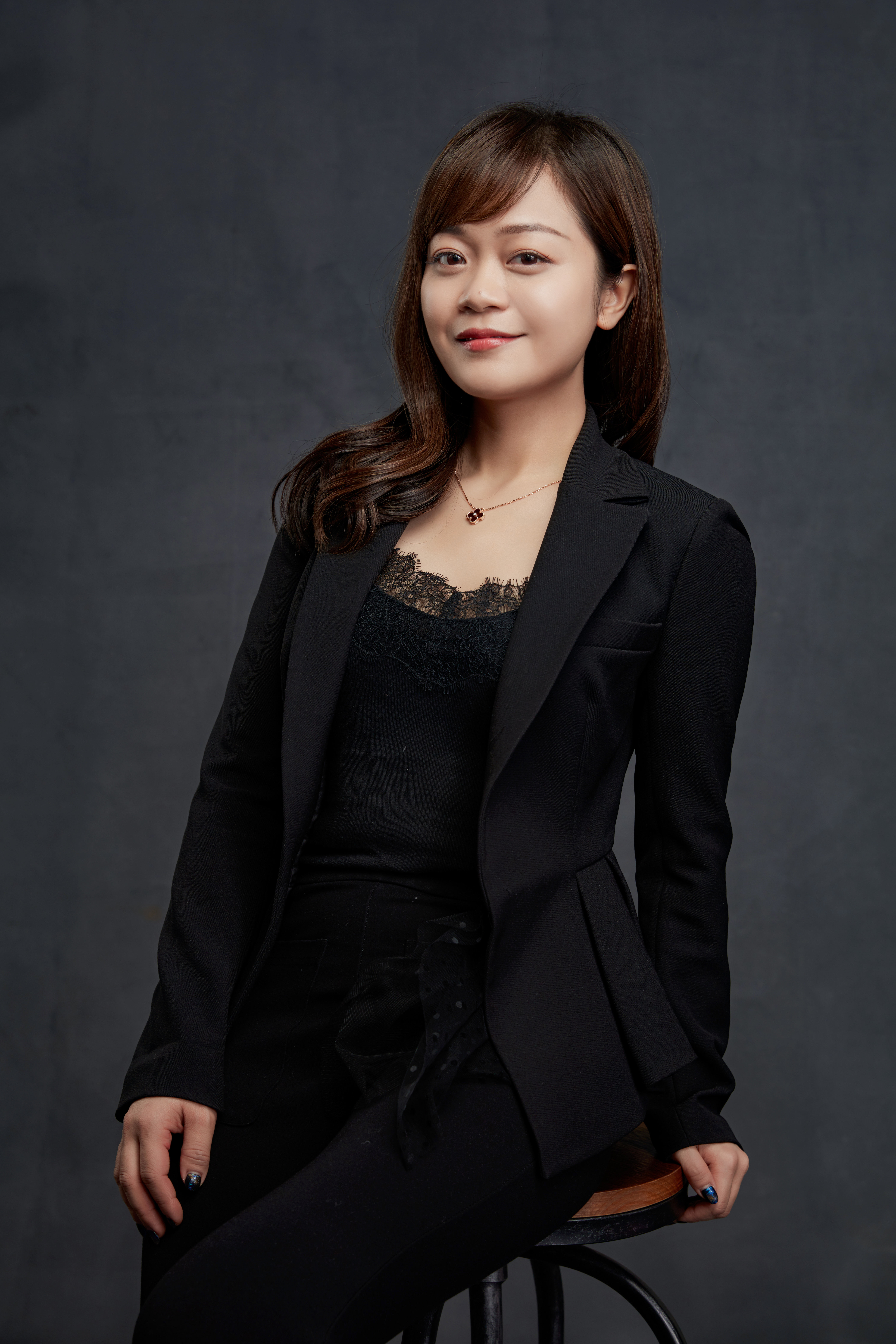 Yuki He photo